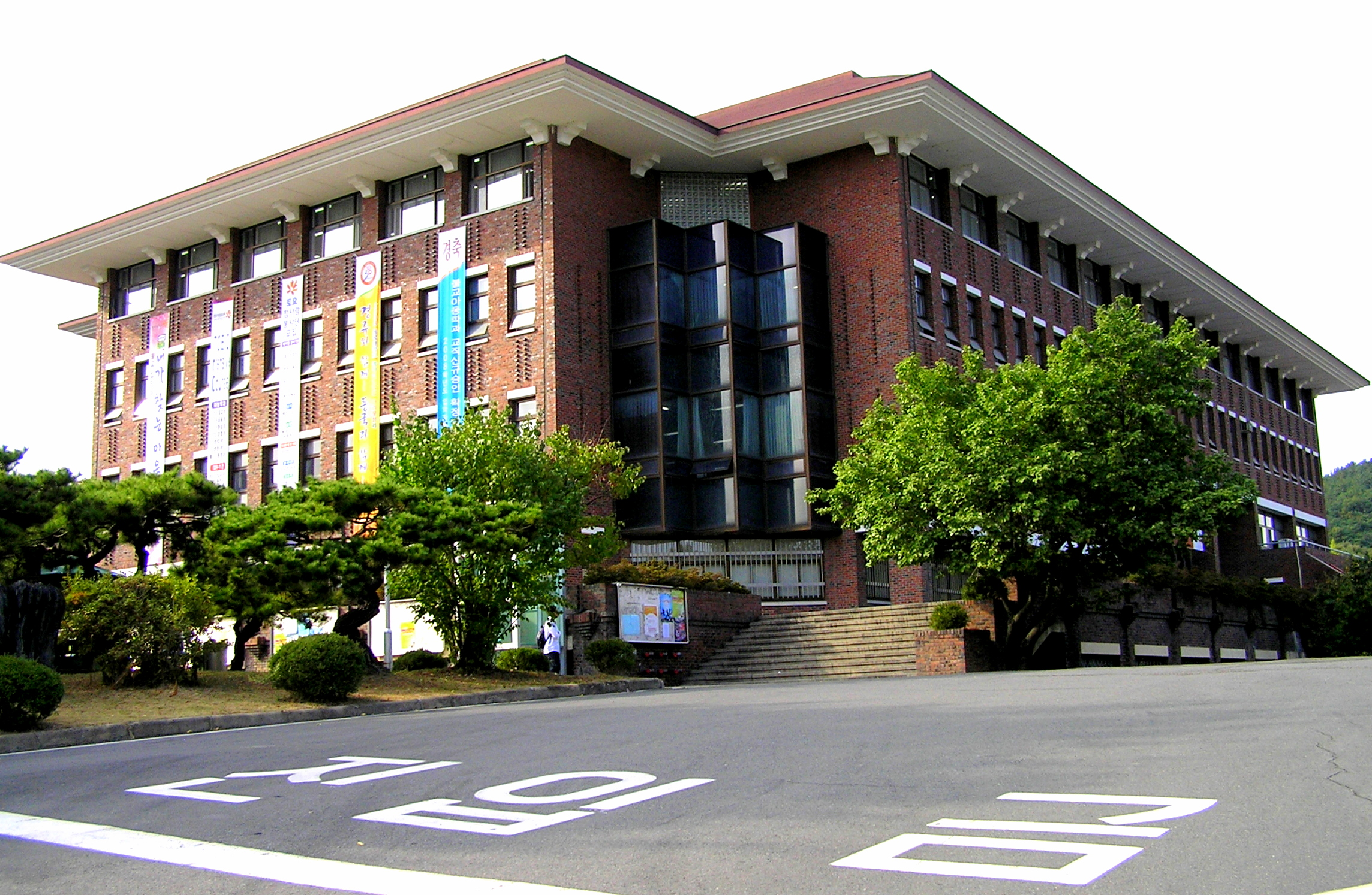 Library and Information Services center building of Dongguk University in Gyeongju